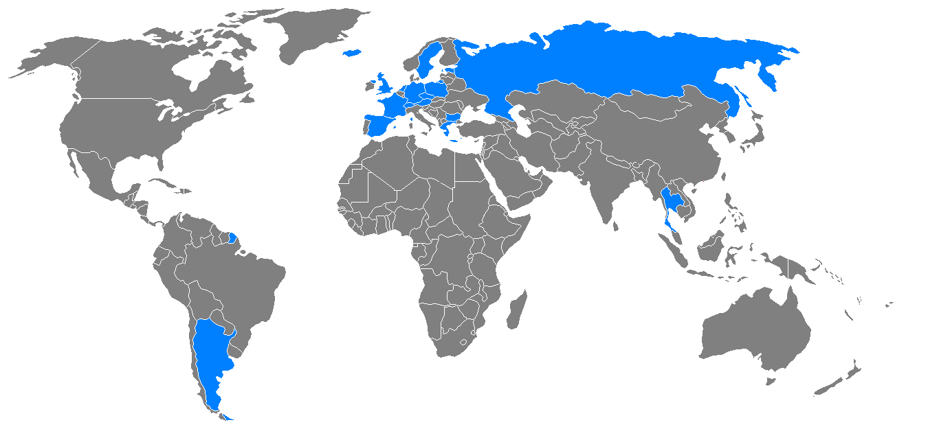 Corrected version of Image:Swedex.PNG, showing the countries in which one may sit the Swedex examinations. Own work, released into public domain.